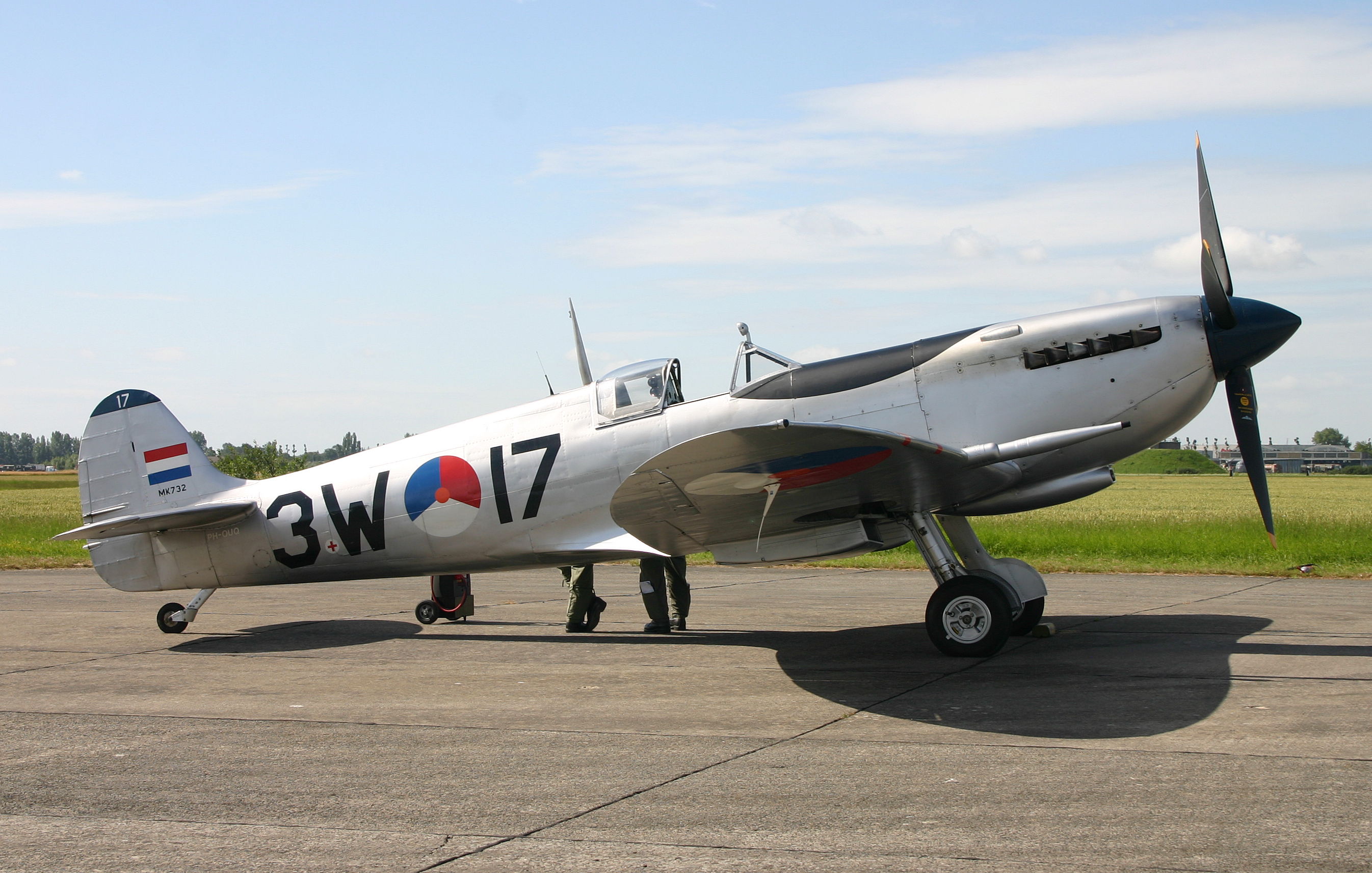 Ex RAF 'MK732' and RNthAF 'H-25'. Saw serivce over the D-Day beaches coded 'OU-U'. msn CBAF.IX1732. Basking in the sun near the crowdline, prior to its display. 2011 Koksijde Airshow, Belgium. 07-07-2011